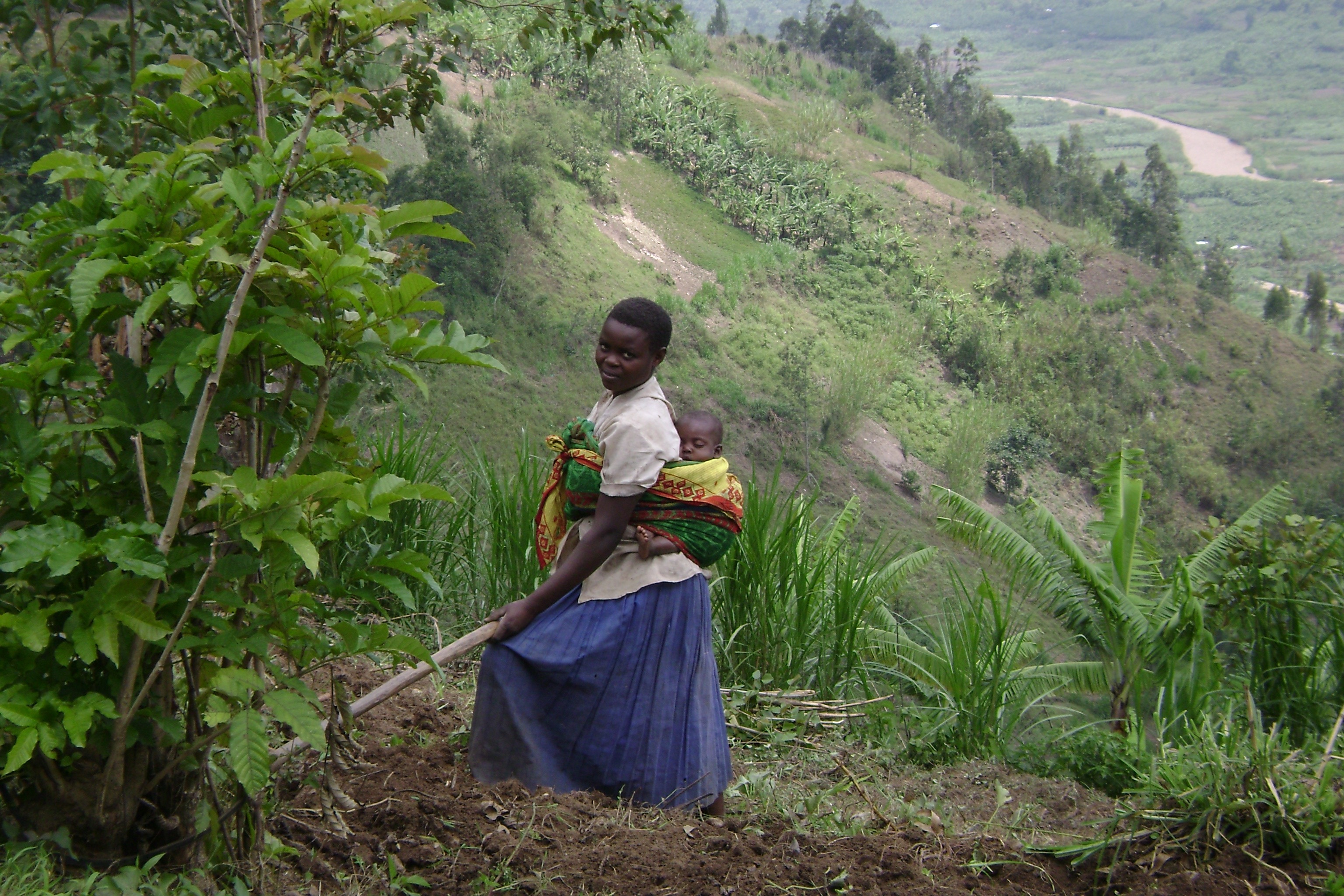 This photo was taken on the hillside of Rwanda. Like women all over the world, this woman is multi-tasking, taking care of the baby, while hoeing. This is an image of "African people at work" from Rwanda